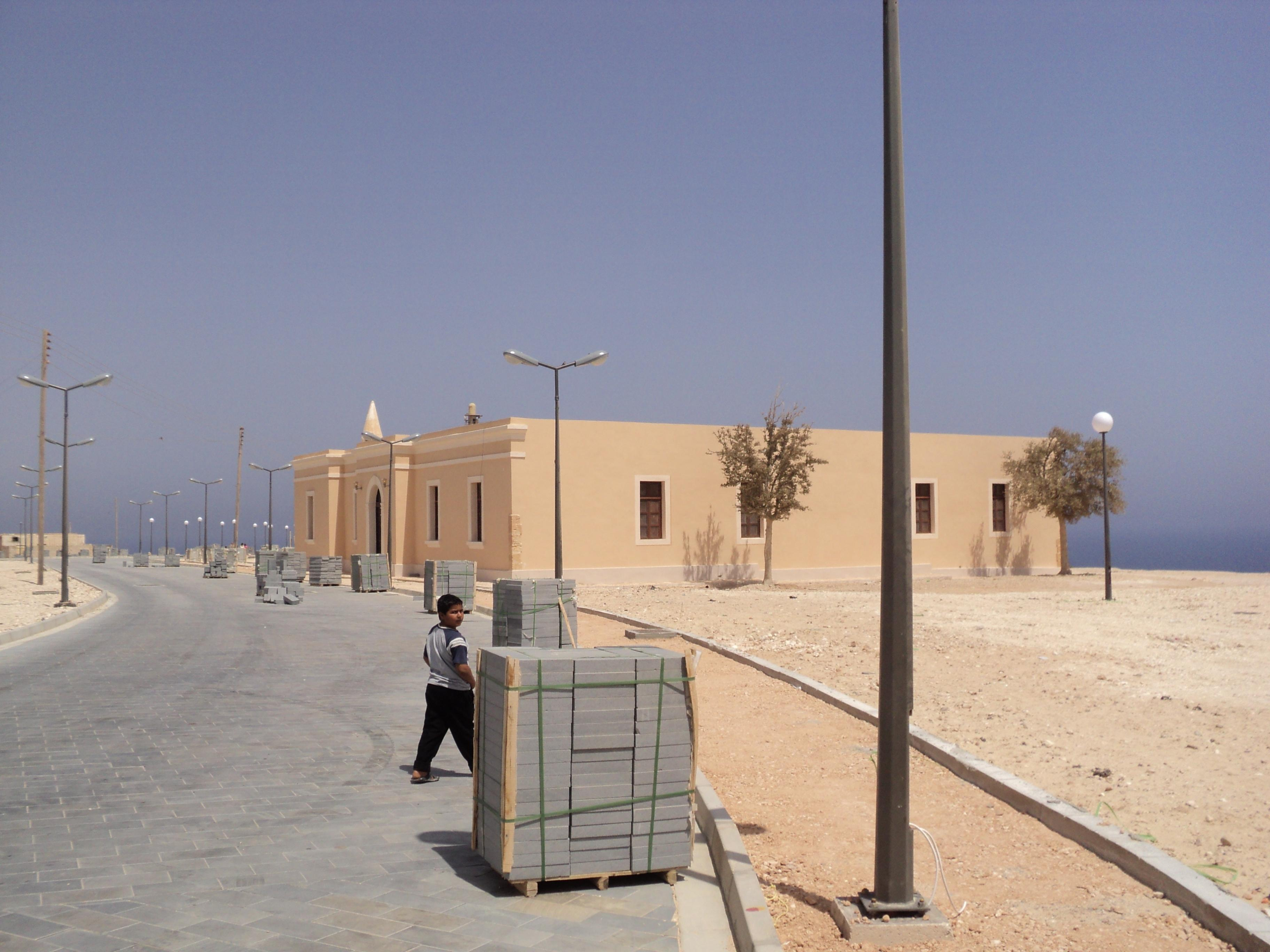 The Libyan village of Bardia under development.